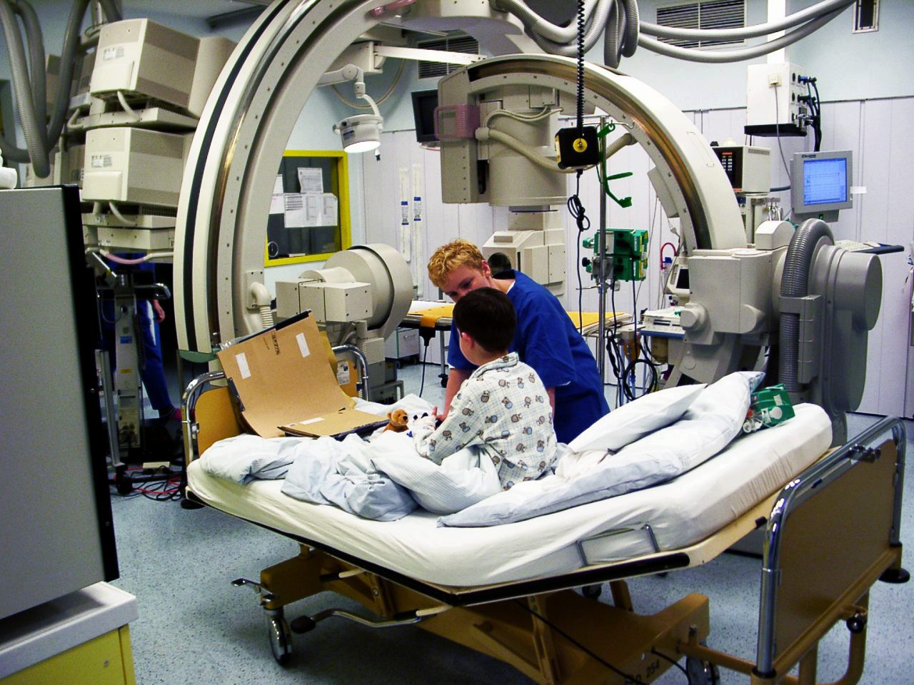 Cardiac catheterization laboratory